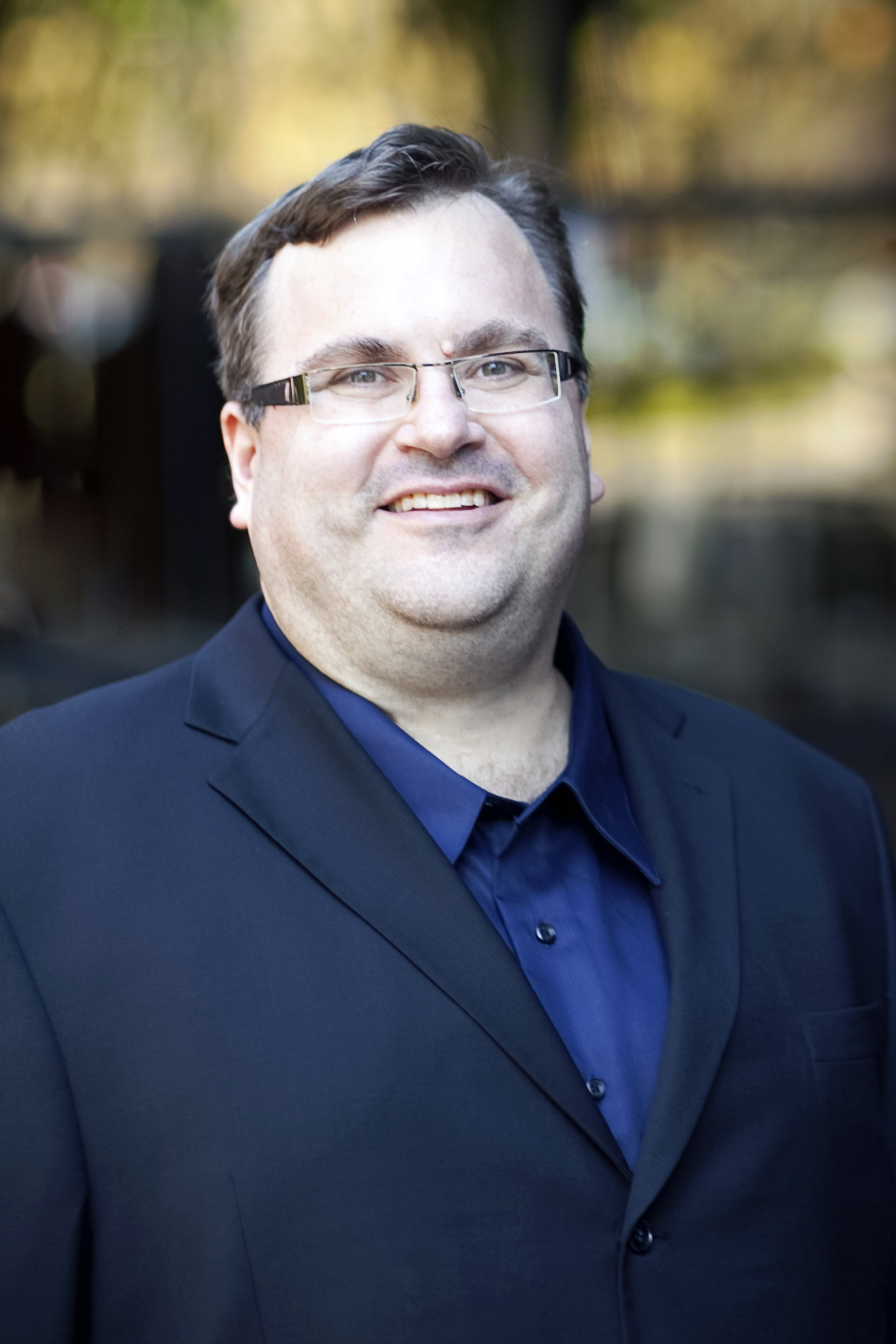 Reid Hoffman in San Francisco in 2011.